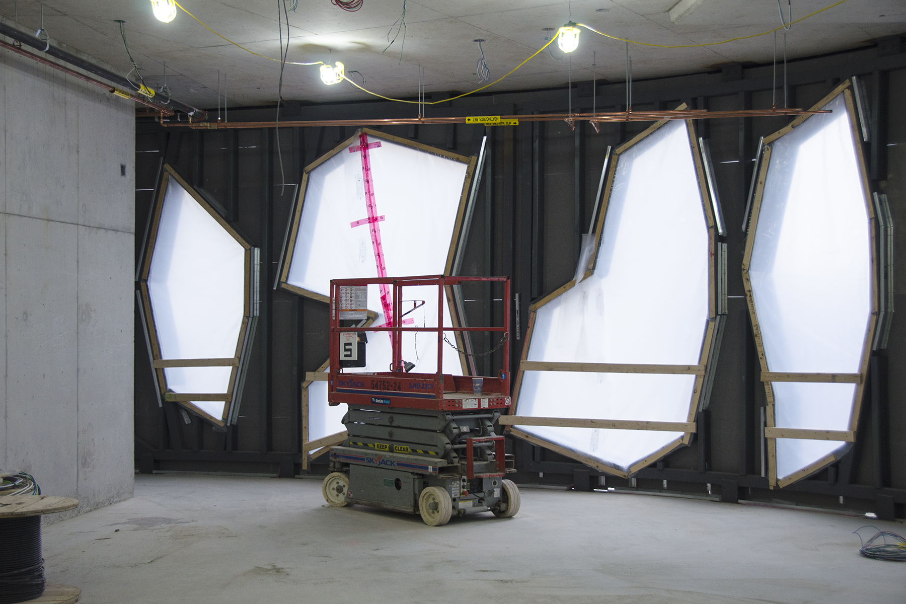 Once in place, both sides of the wall are completed to enclose the building quickly to allow for latter phases of the project to proceed.